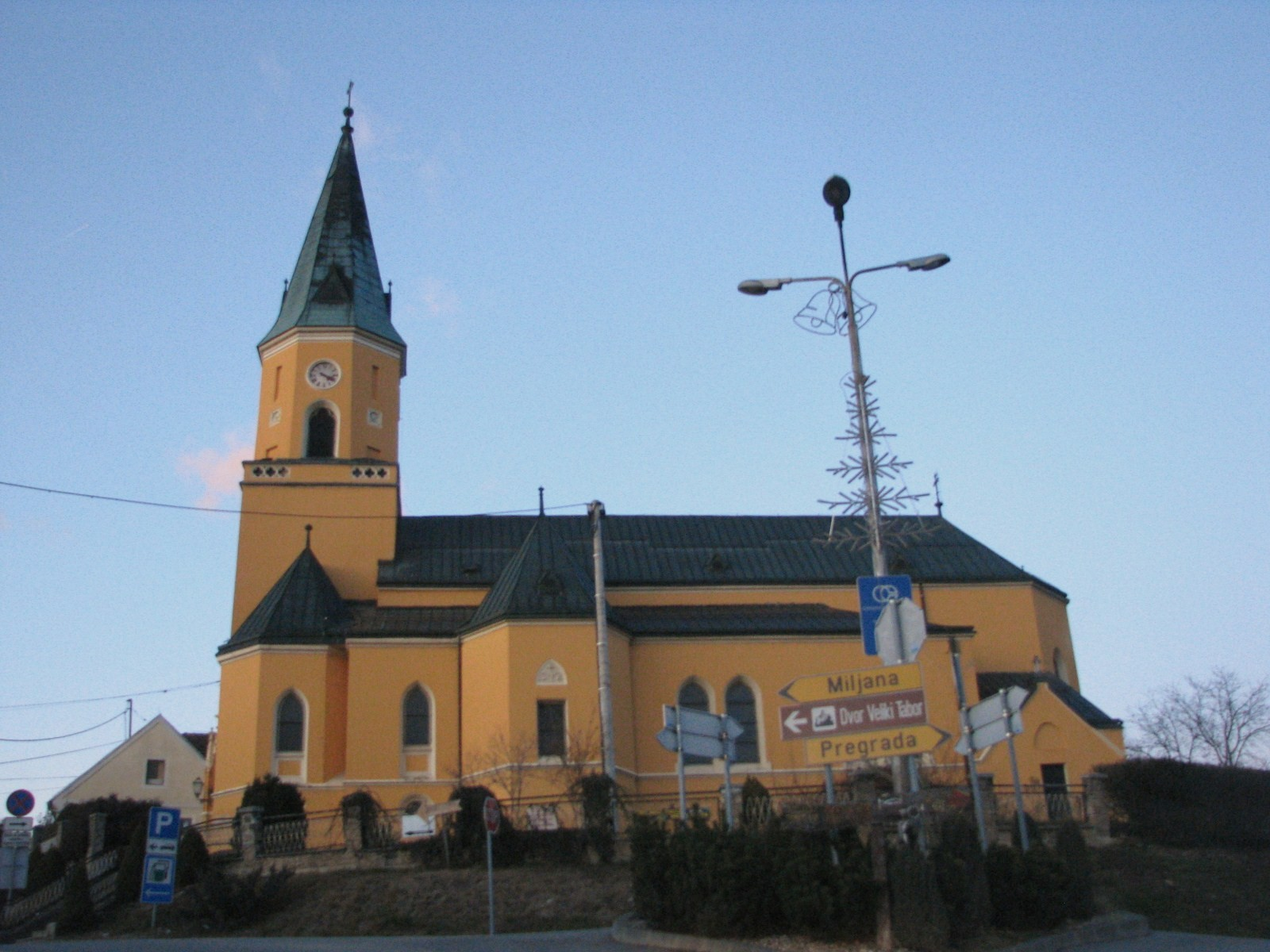 parish church of St. George in Desinic by Josip Vancaš (1901-1902)